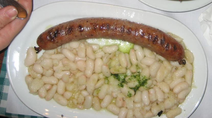 Botifarra amb mongetes seques, typical food of Catalan cuisine